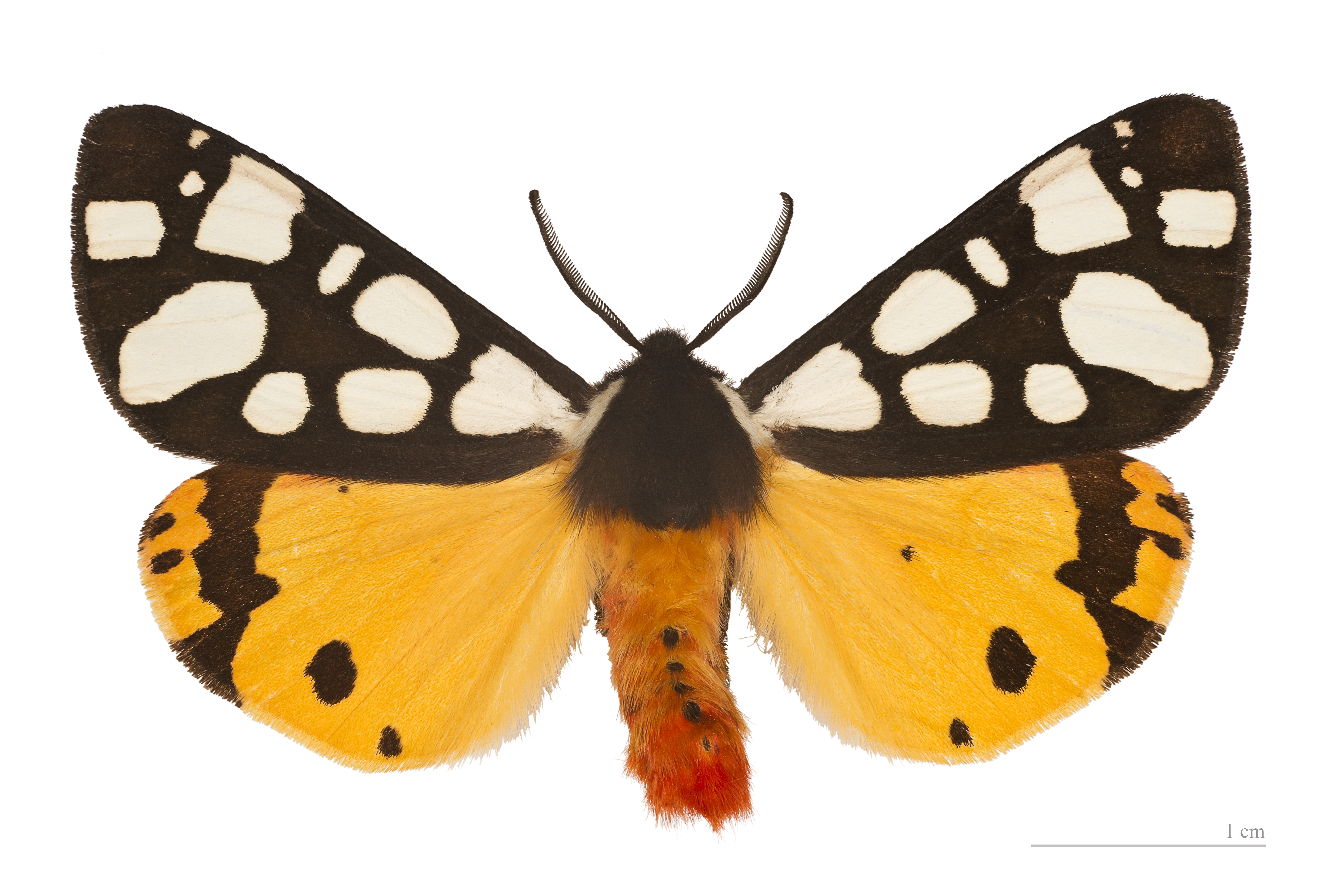 Cream-spot Tiger ♂ - Dorsal side Locality: Galan, Hautes-Pyrénées, Hautes-Pyrénées, France